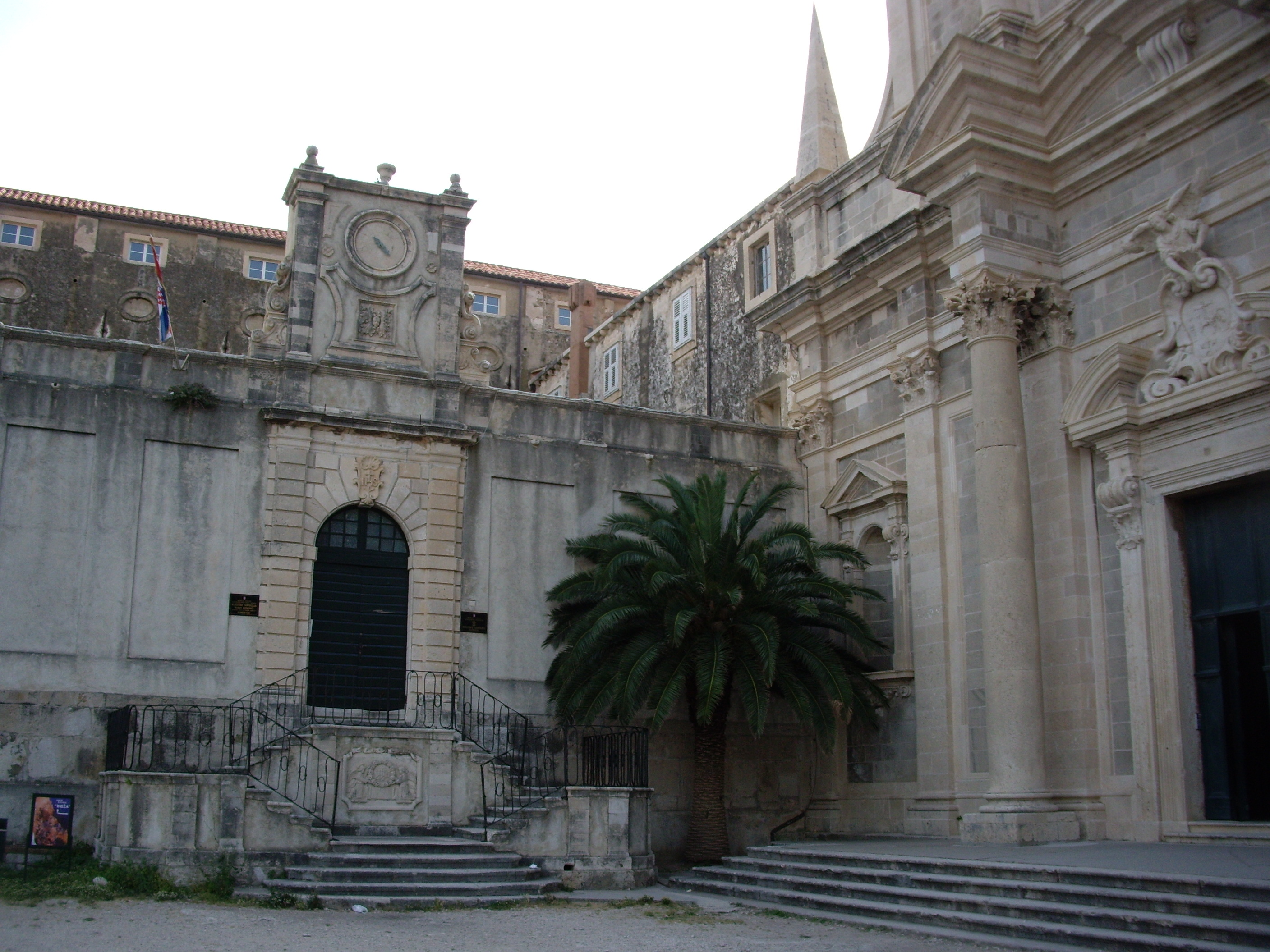 Gimnasium for classical languages (Latin and Greek) in Dubrovnik, Croatia